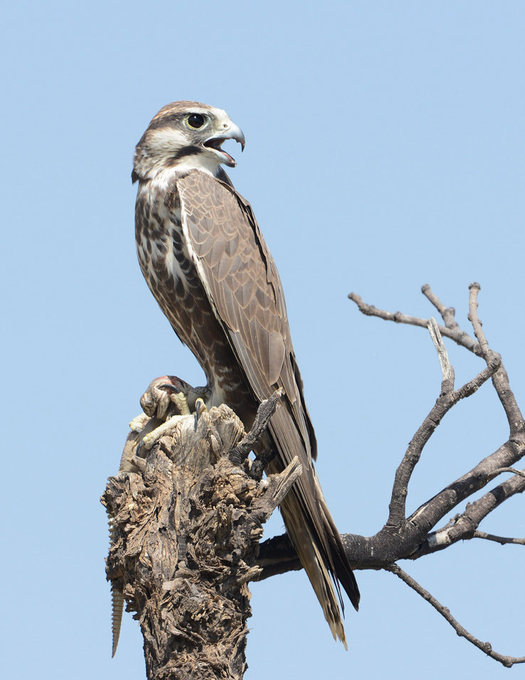 A Laggar Falcon with prey (Spiny-tailed Lizard - Uromastyx hardwickii) in its talons at Tal Chapar, District Churu, Rajasthan, India. A Sub adult Twany Eagle (Aquila rapax) wanted to snatch the meal from the Falcon and was chasing him. Here the Falcon has just settled on a tree stump and is looking out for the eagle predator.